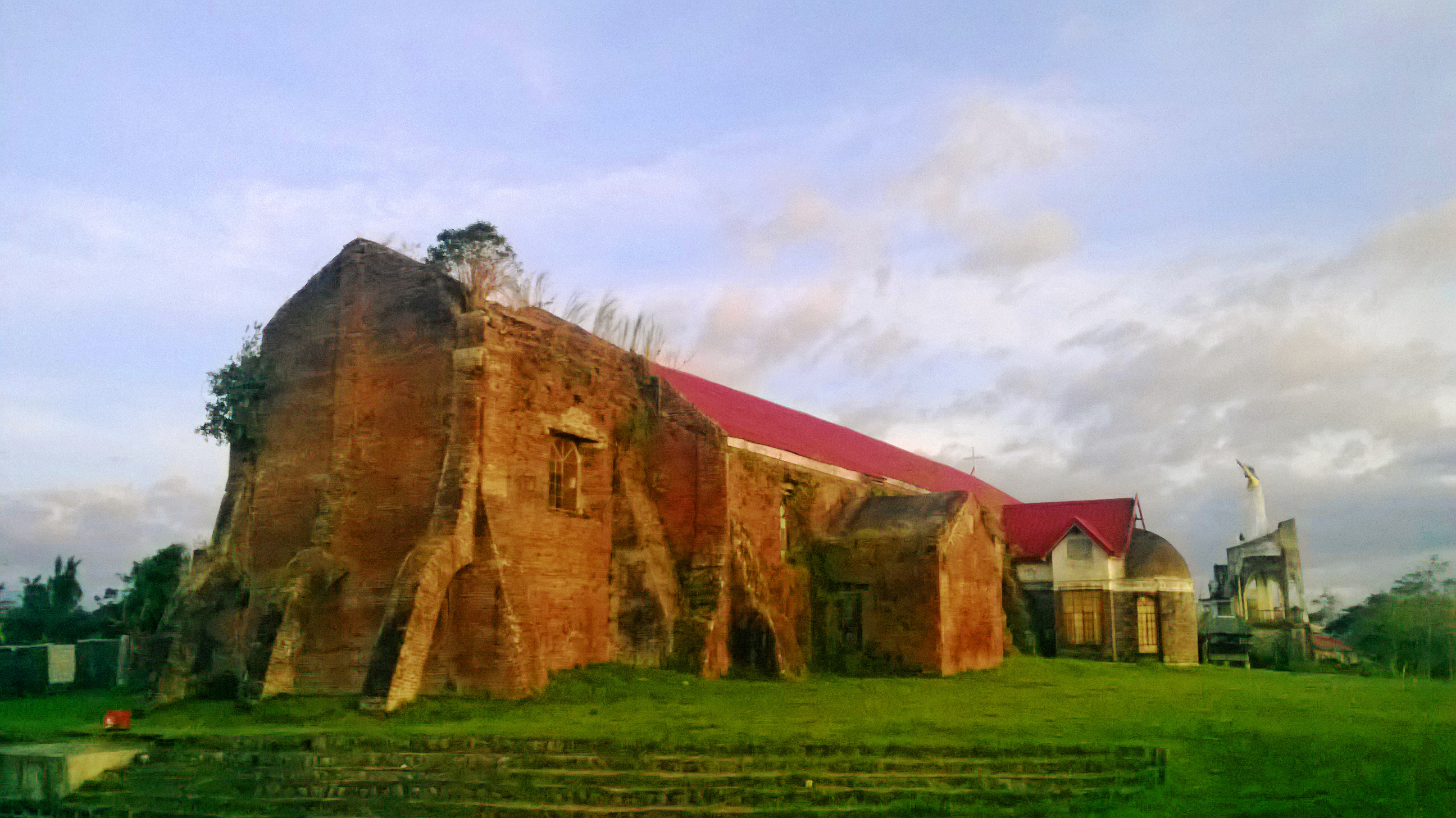 Century church located at Iguig, Cagayan